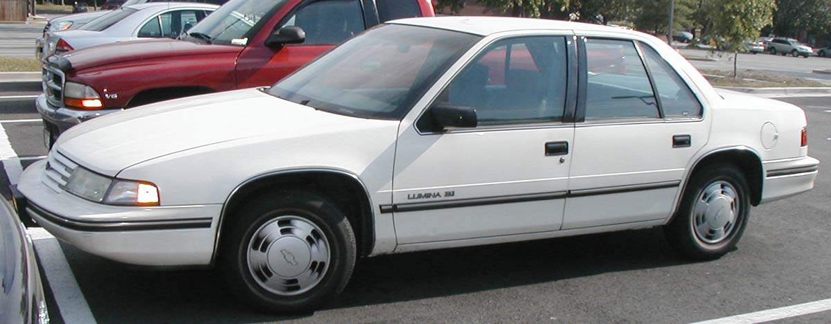 1990-1994 Chevrolet Lumina photographed in USA.